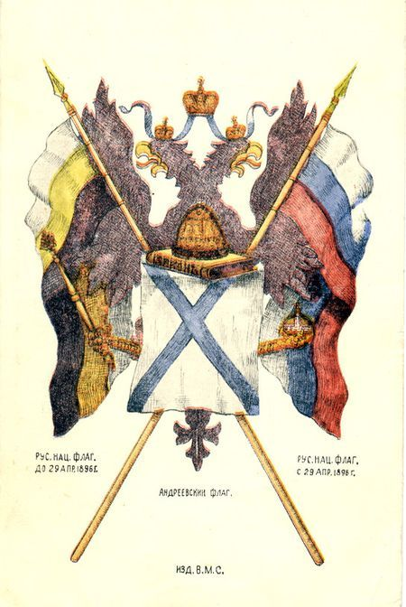 Postcard. National flags of Russia before and after April 29, 1896.